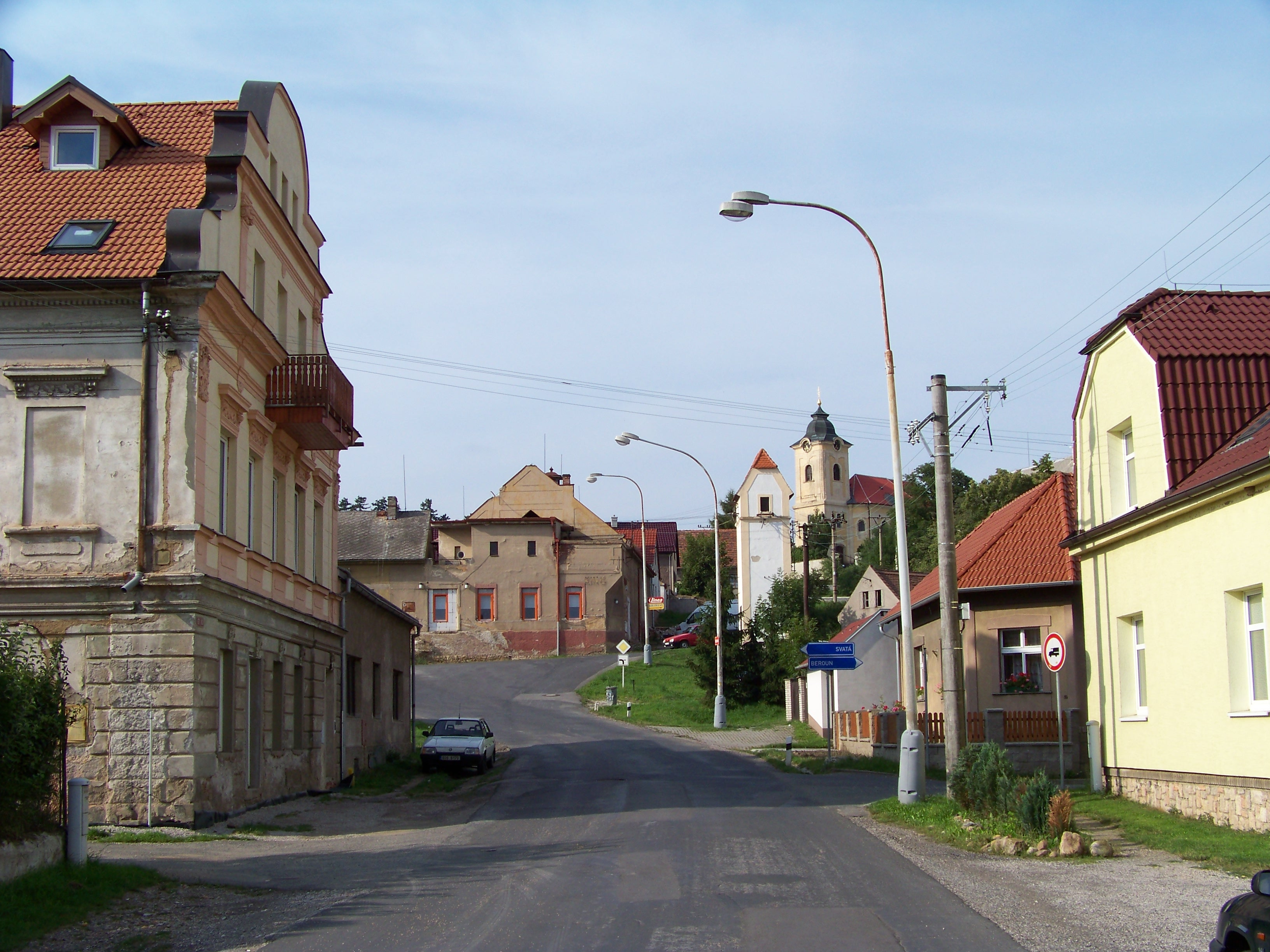 Králův Dvůr-Počaply, Beroun District, Central Bohemian Region, the Czech Republic. Fügnerova street.